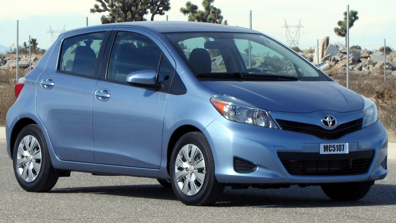 2012 Toyota Yaris photographed in USA.